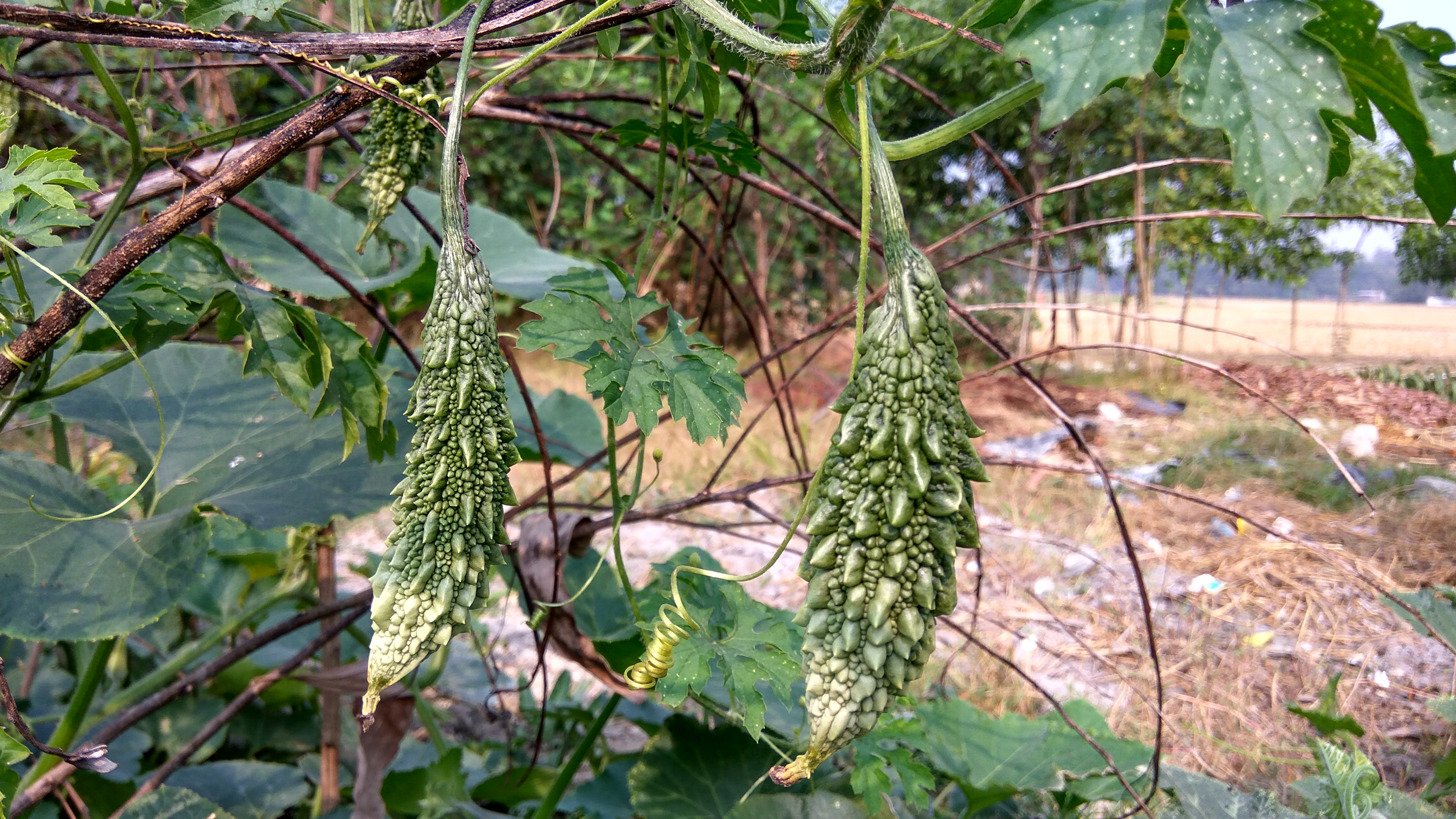 Momordica charantia